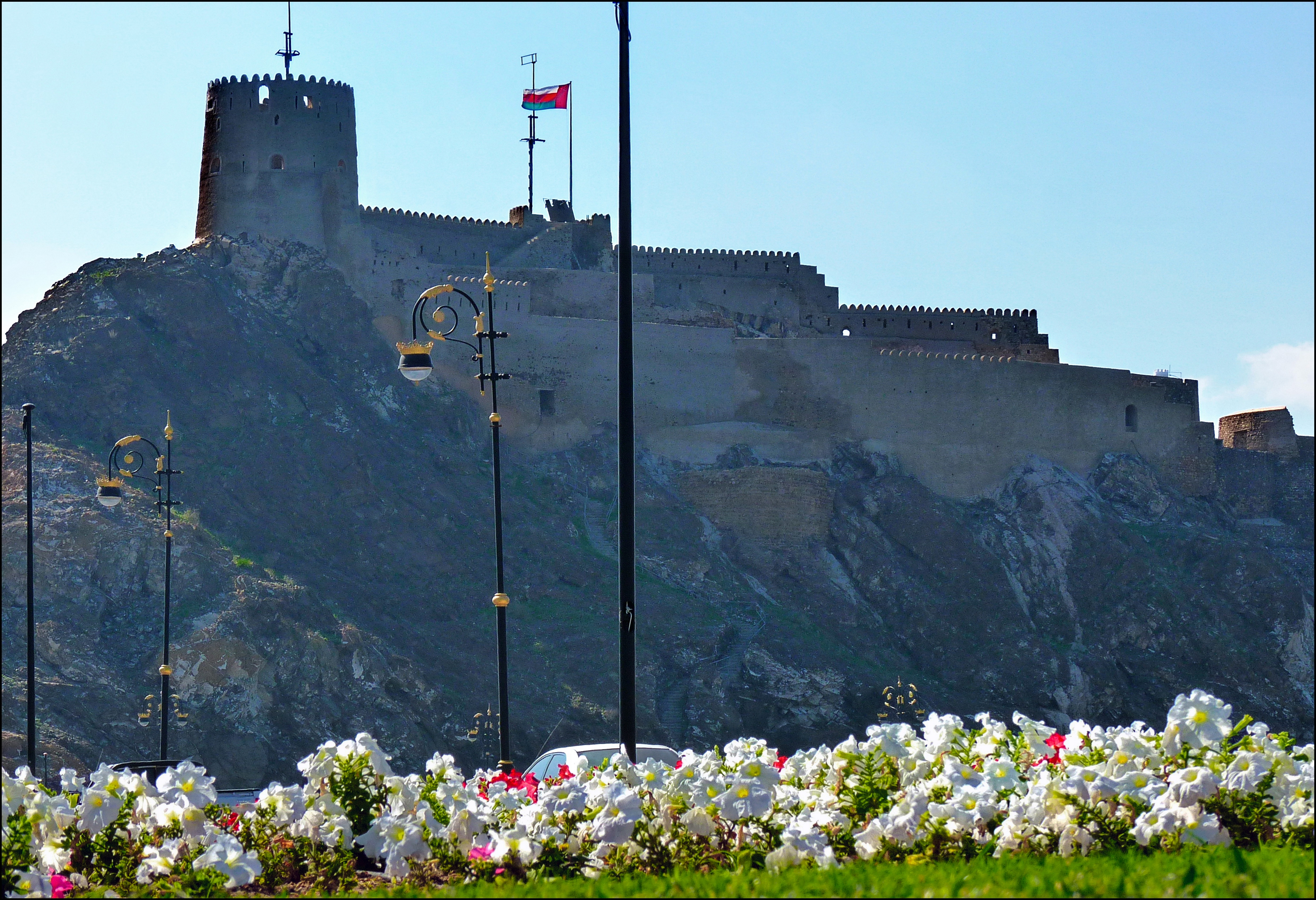 Al Jalali fort in Mutrah